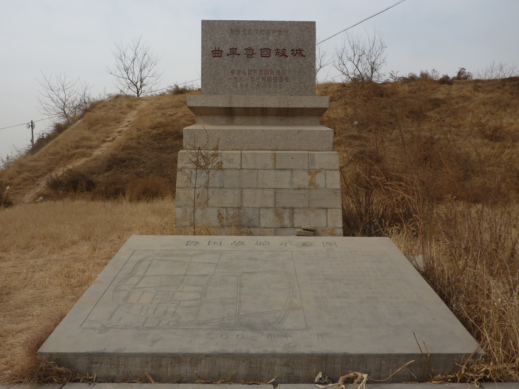 Remnants of the city wall that surrounded the capital of the state of Lu some 2,500 years ago. The section around what was the SE corner of that wall can be still seen as a low earth wall, crossed by Jingxuan East Rd some 2 km east of Qufu's (Ming-era) Walled City. There is an explanatory memorial sign at the site, on the north side of Jingxuan East Rd.